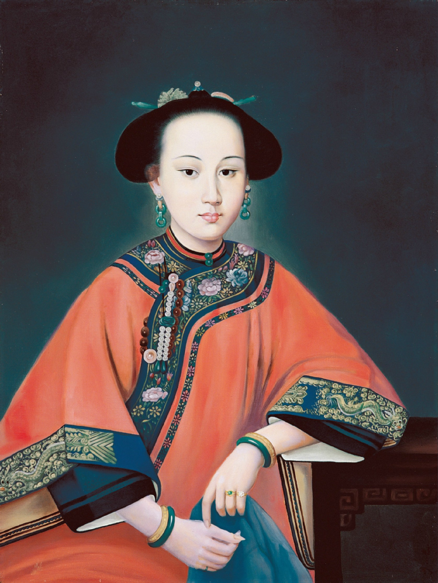 Portrait of Lady Hoja, Consort of the Qing Dynasty Qianlong Emperor